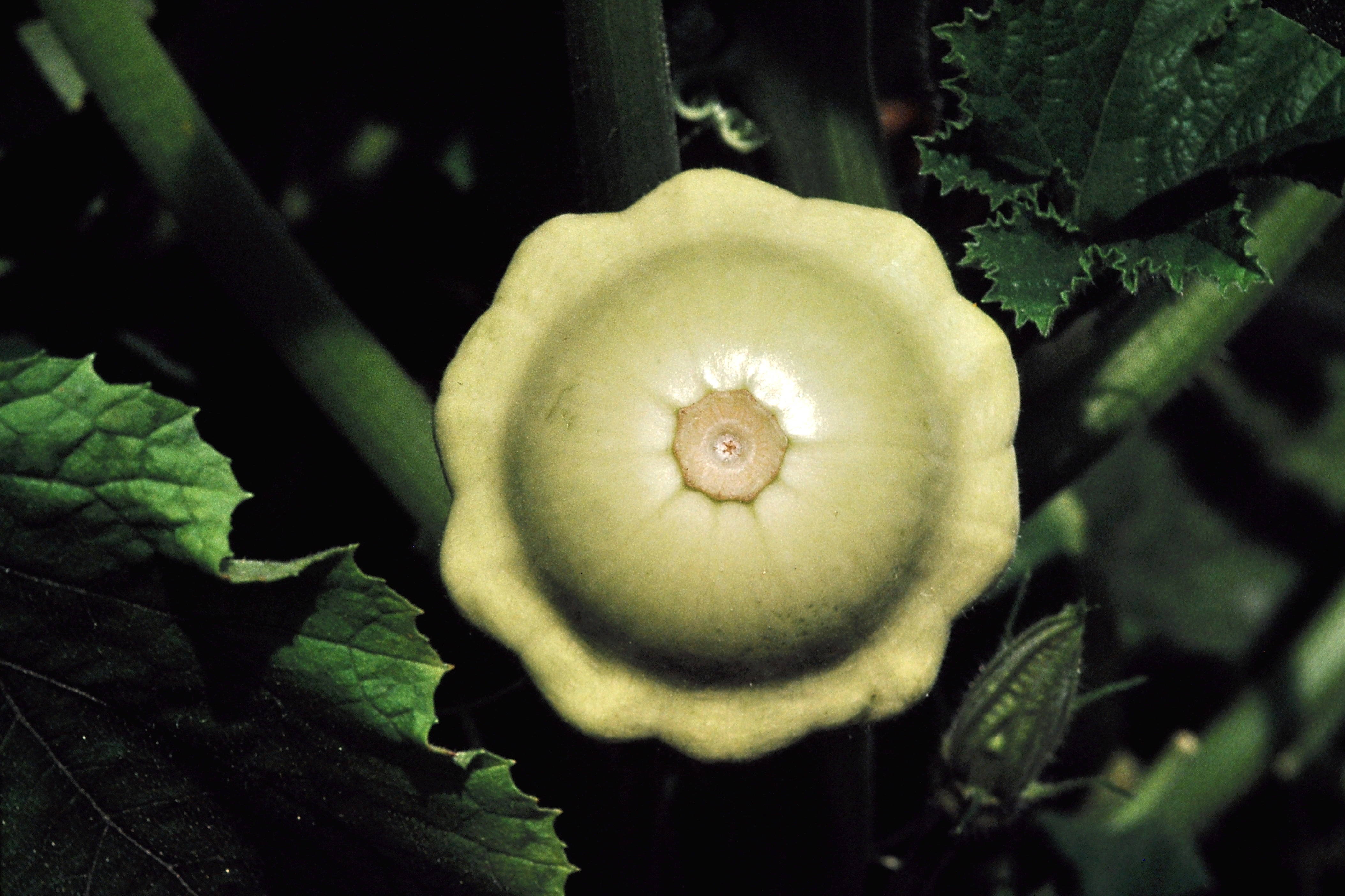 Fruit of Zucchini 'Ufo'